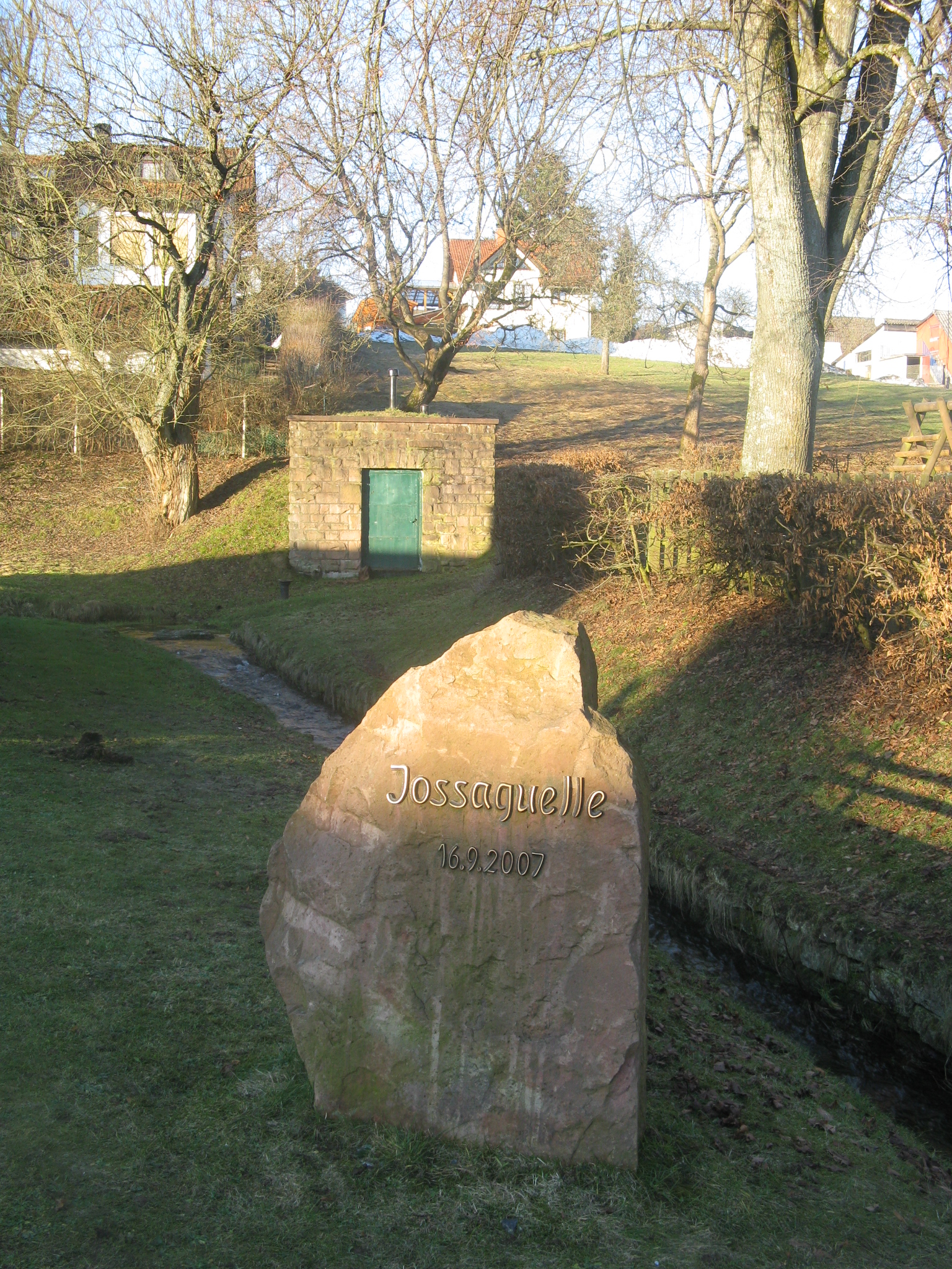 Lettgenbrunn, Jossa source